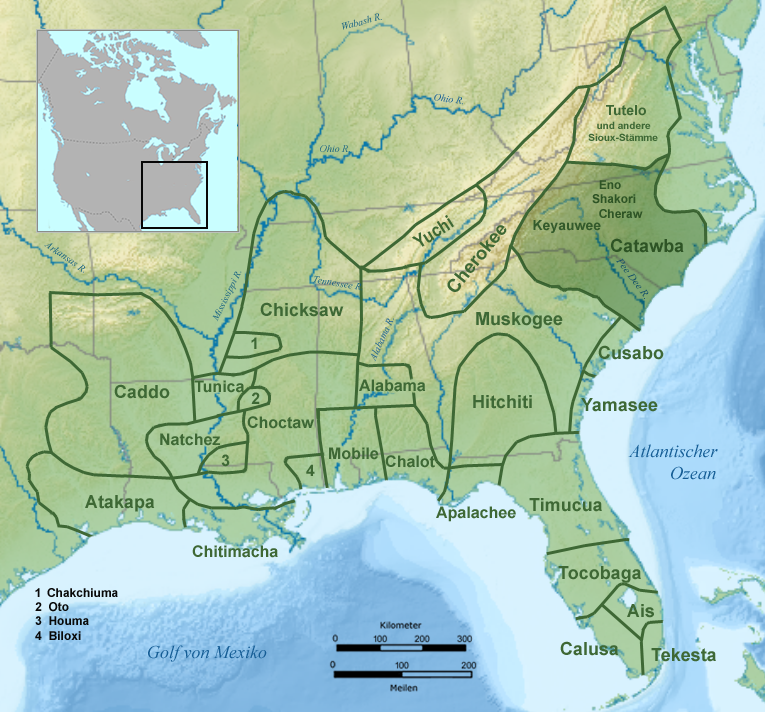 Tribal territory of Keyauwee during seventeenth century